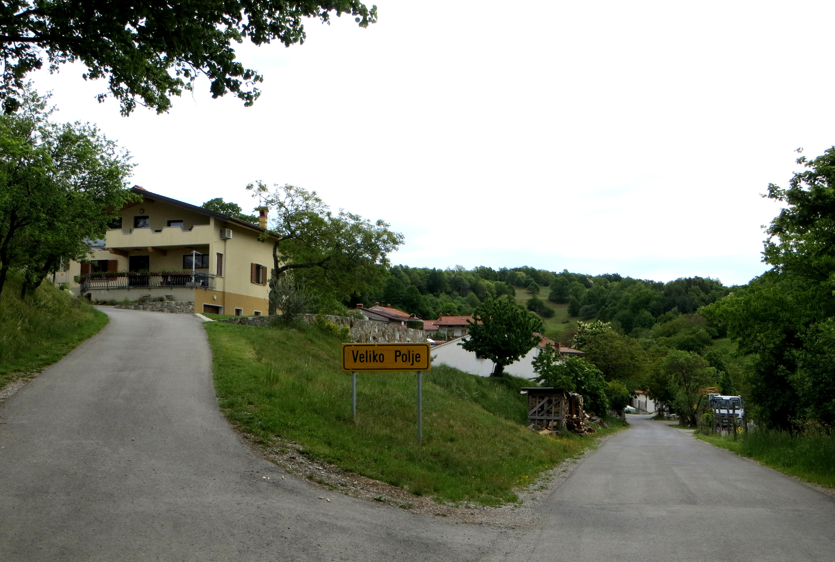 Veliko Polje, Municipality of Sežana, Slovenia